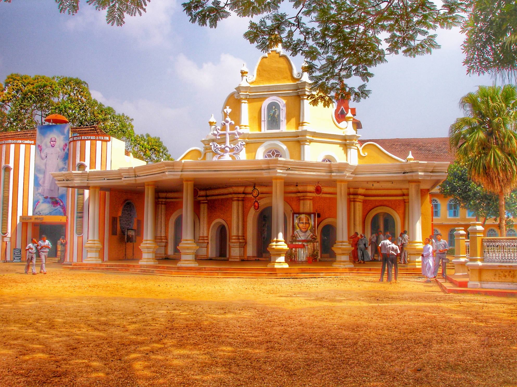 The Syro Malabar Church at Mannam